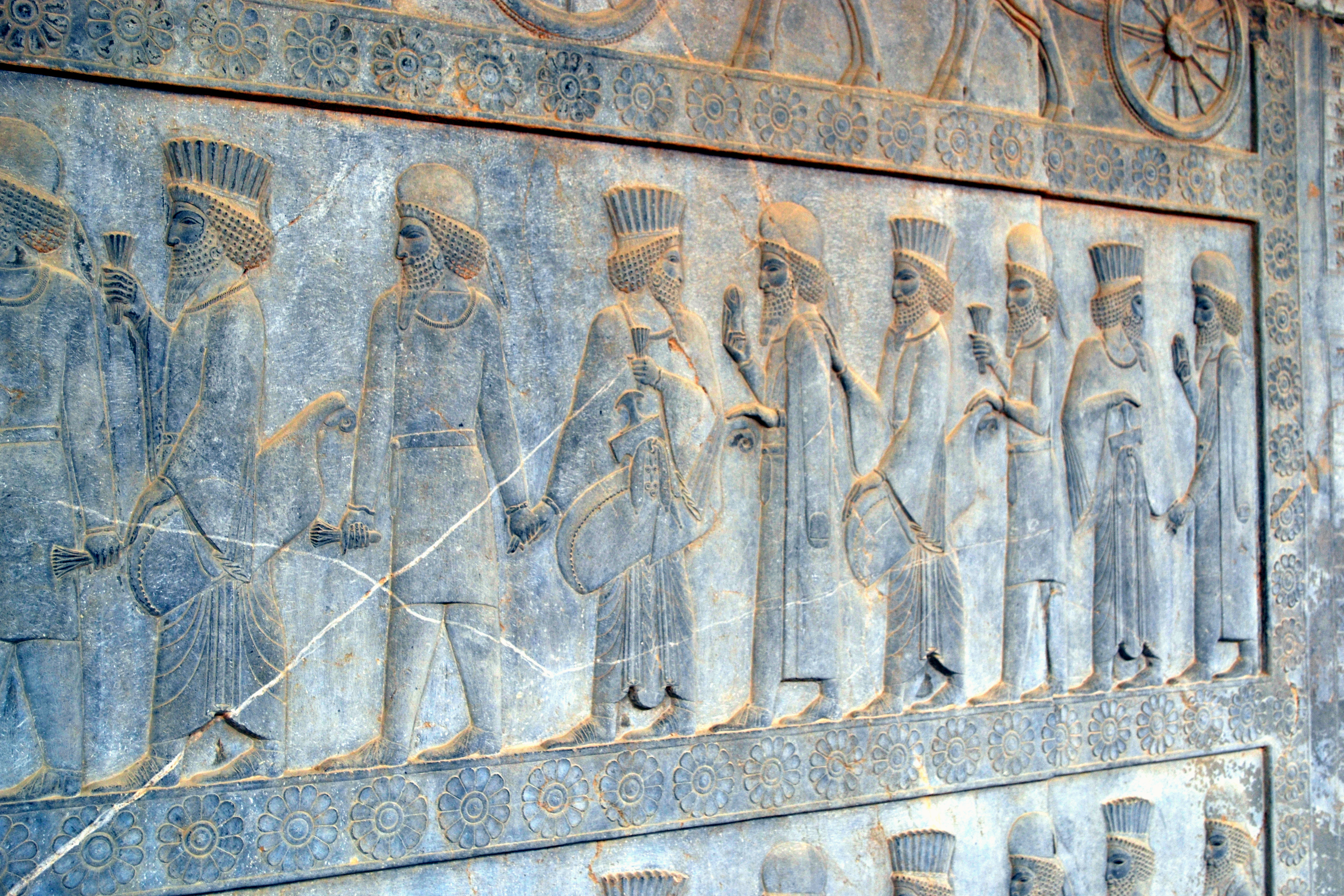 Medes and Persians at the eastern stairs of the Apadana in Persepolis, Iran.